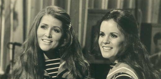 Sandi Griffiths (left) and Sally Flynn (right) in 1972